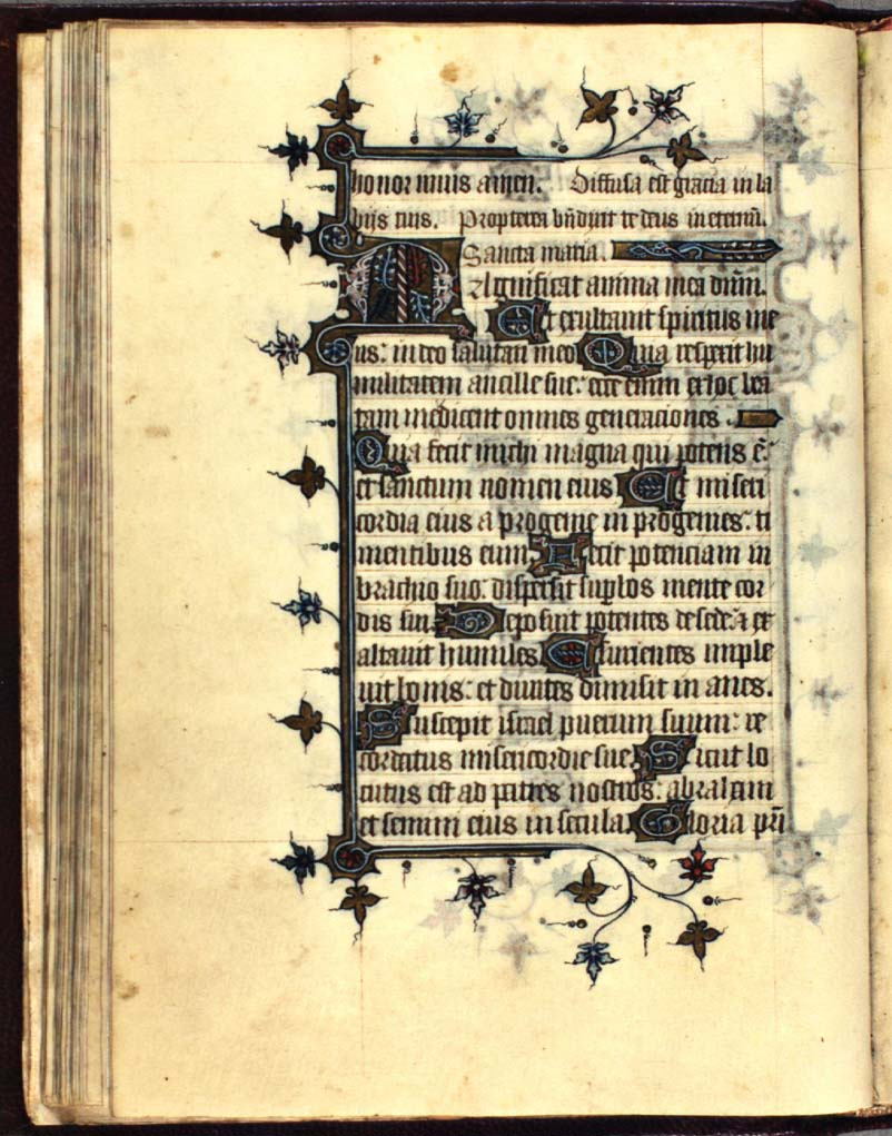 Ave maris stella (continuation) and Magnificat, from Copenhagen MS Thott. 547 4°